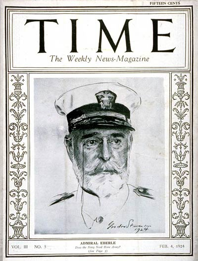 TIME Magazine Cover Featuring Edward Walter Eberle, 4 Feb 1924